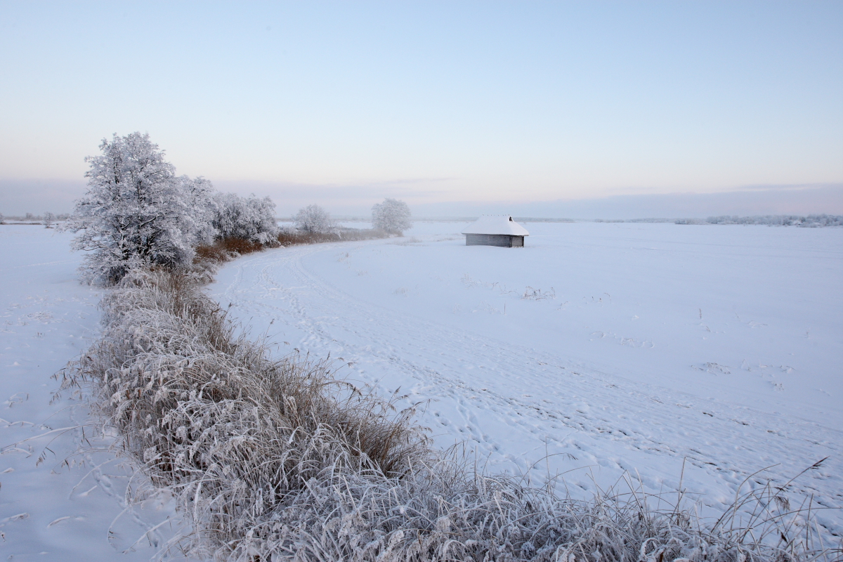 Suitsu River, Matsalu National Park, Lääne County, Estonia